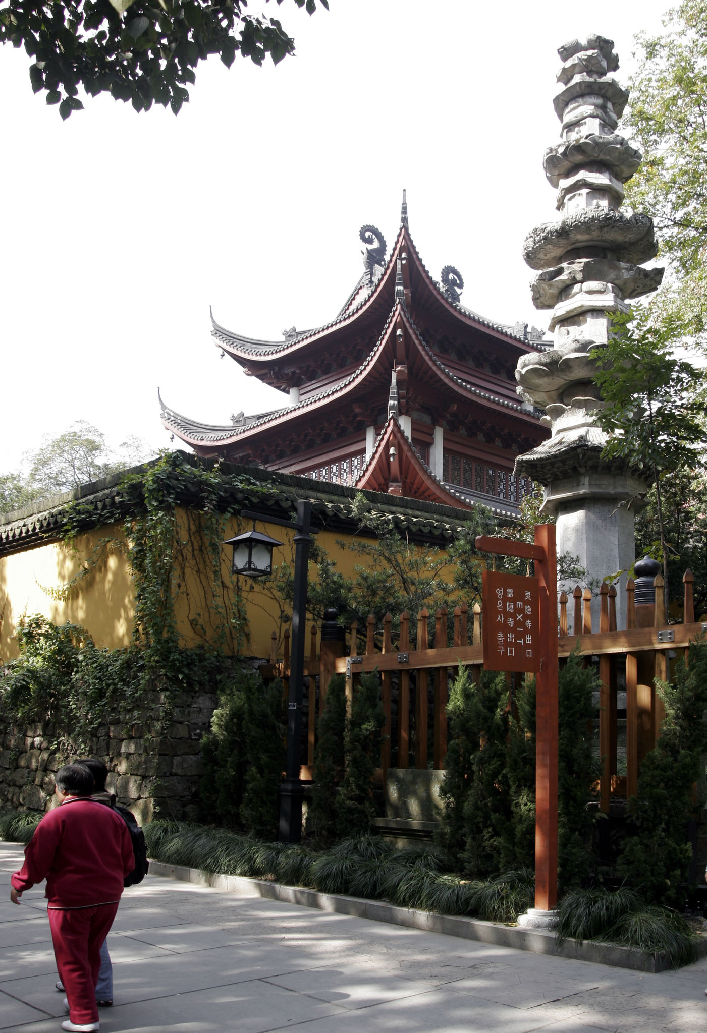 Stone pagoda from 10th century inside the Lingyin Temple close to Hangzhou, Zhejiang Province, China.